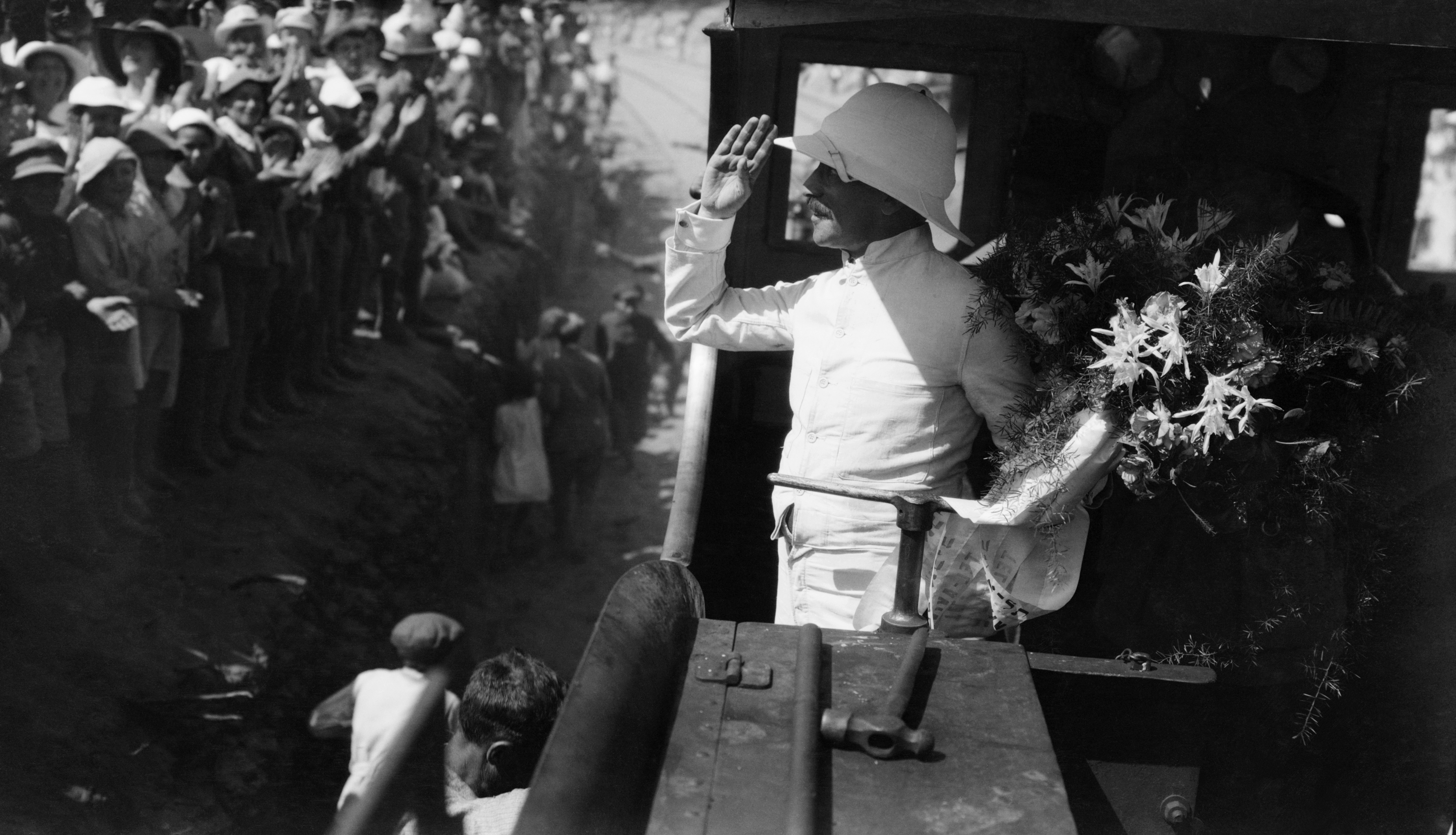 The Palestine High Commissioner, Herbert Samuel, inaugurating the reconstructed Jaffa–Jerusalem railway.